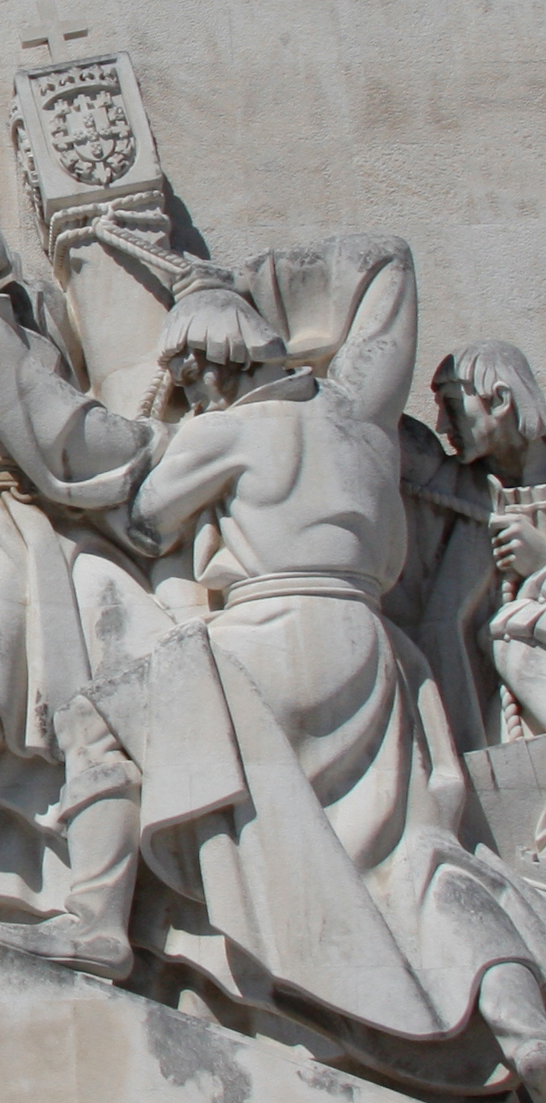 Effigy of Diogo Cão (c. 1440s - c. 1486), Portuguese explorer, in the Padrão dos Descobrimentos (Monument to the Discoveries), in Lisbon, Portugal.